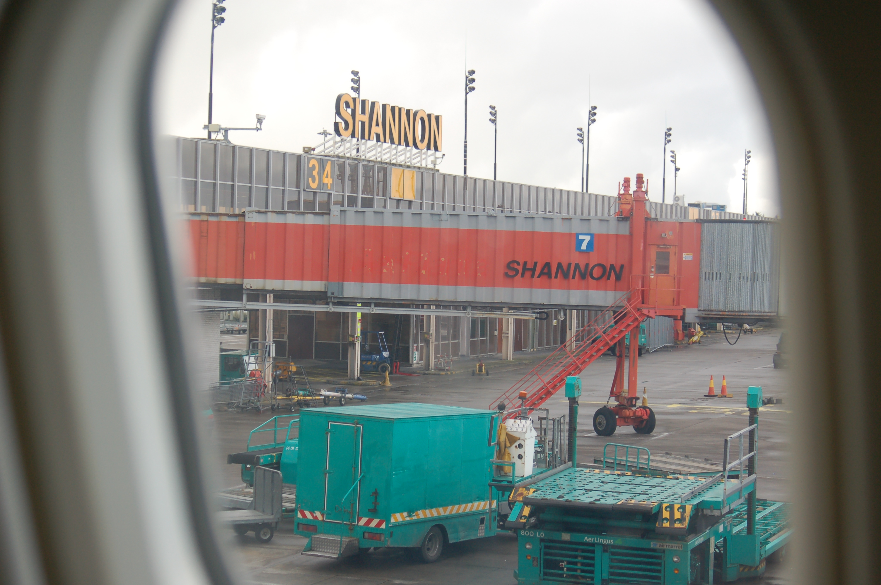 A view of Shannon Airport taken from an Aer Lingus plane.